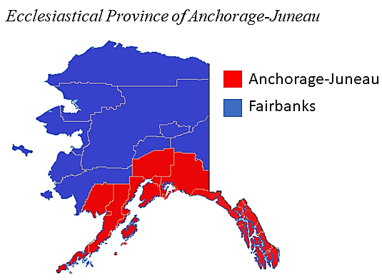 Ecclesiastical Province of Anchorage-Juneau in the Catholic Church encompasses the state of Alaska, USA.